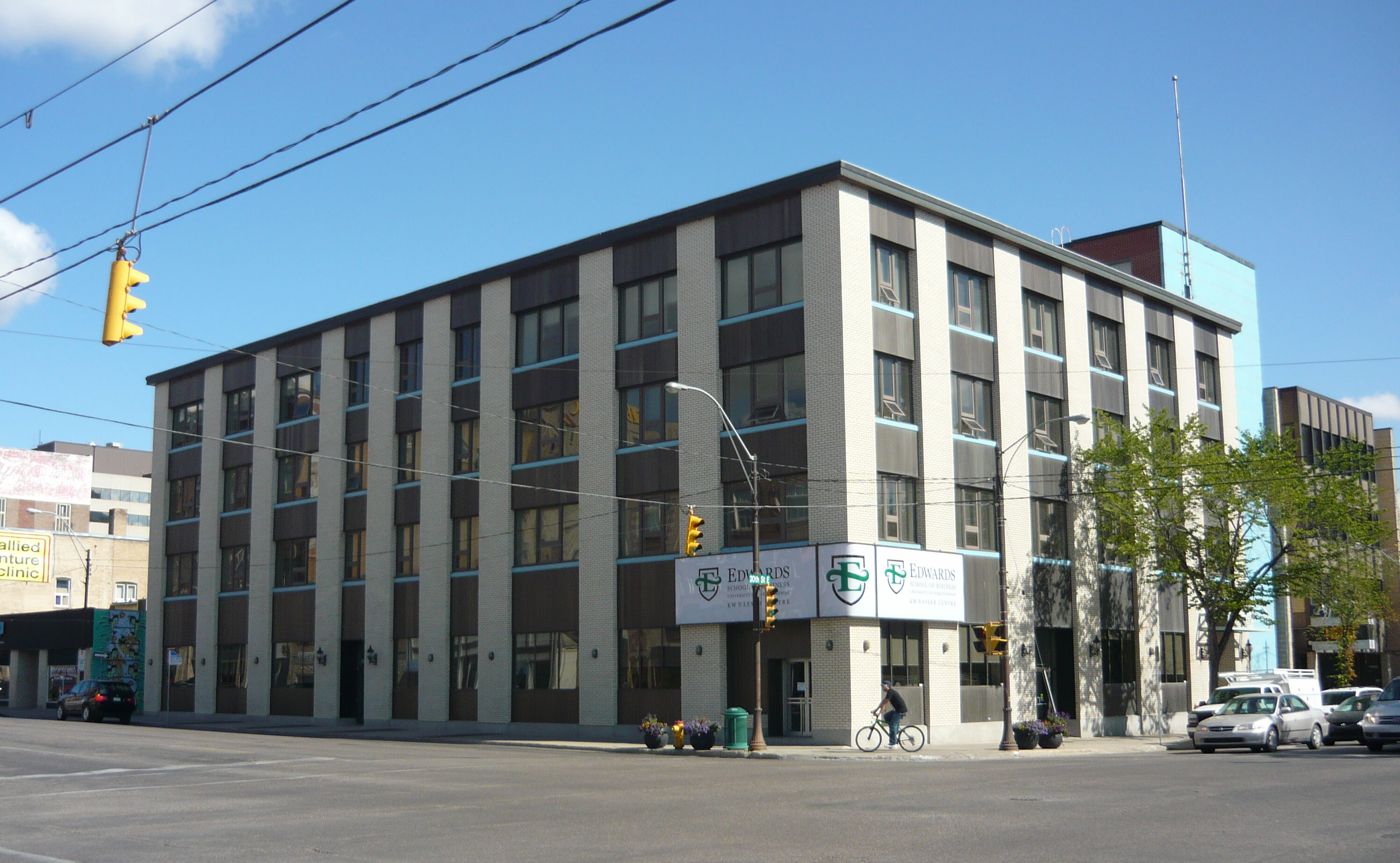 K. W. Nasser Centre (Downtown Campus) of the N. Murray Edwards School of Business, University of Saskatchewan. Street address is 256 Third Avenue North (corner of 20th Street East), Saskatoon, Saskatchewan, Canada. This 1912 building has variously been known as the Willoughby Sumner Block (earliest), Bevan Building, London Building, London Life Building, Vienna Building, and Vienna Boutiques.